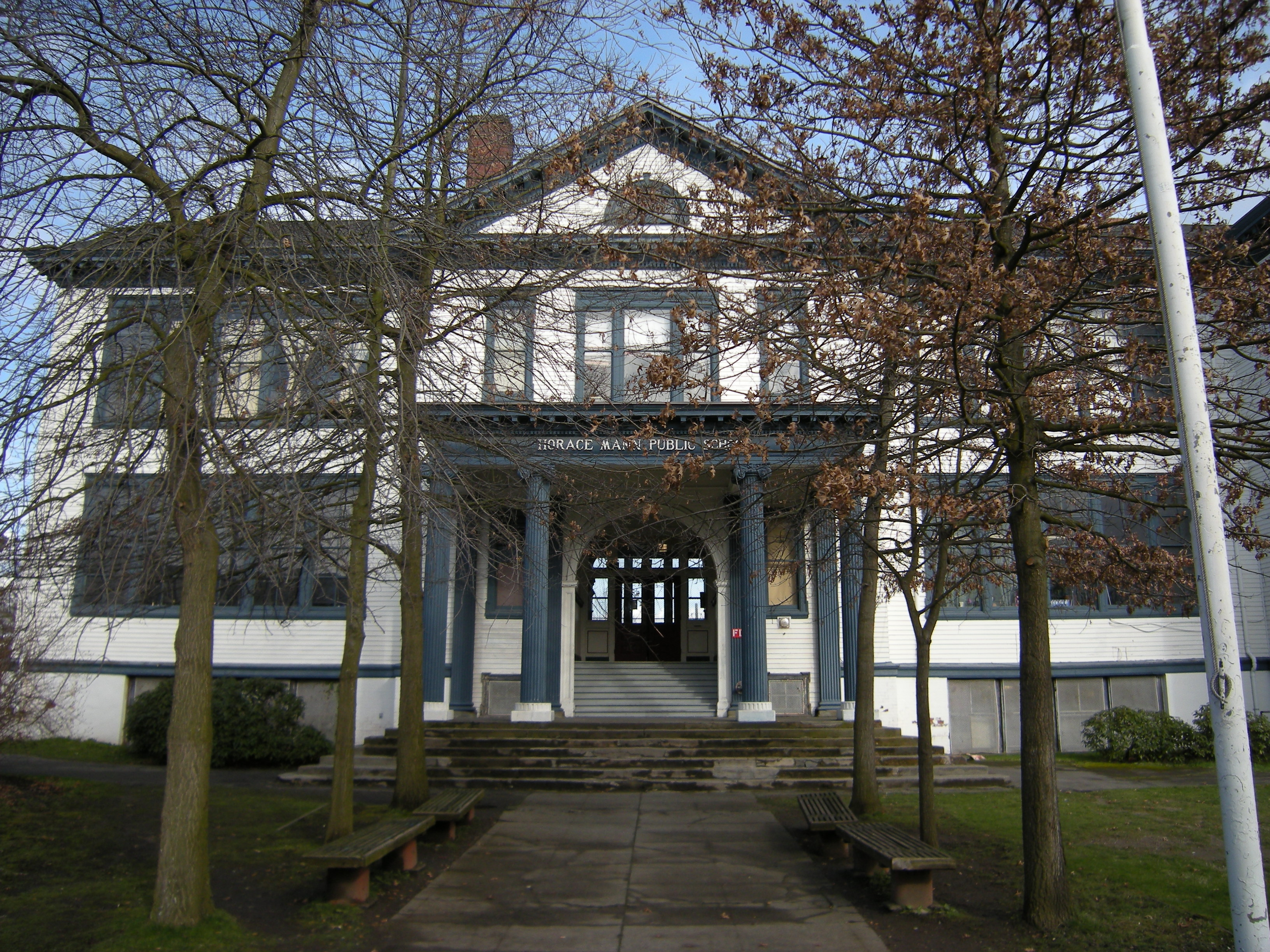 Nova Alternative High School (the former Horace Mann school), Central District, Seattle, Washington.